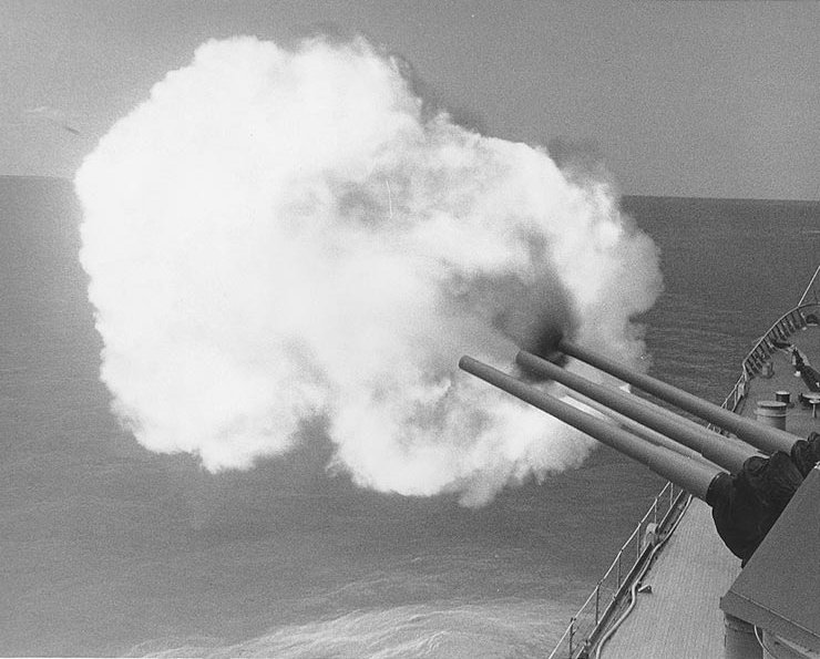 The forward 8"/55 turrets of the U.S. Navy heavy cruiser USS Boston (CA-69) fire a six-gun salvo at enemy positions below the Demilitarized Zone in the Republic of Vietnam, during her 1969 deployment to the Western Pacific. This photograph was received by the U.S. Navy's "All Hands" magazine on 12 November 1969.